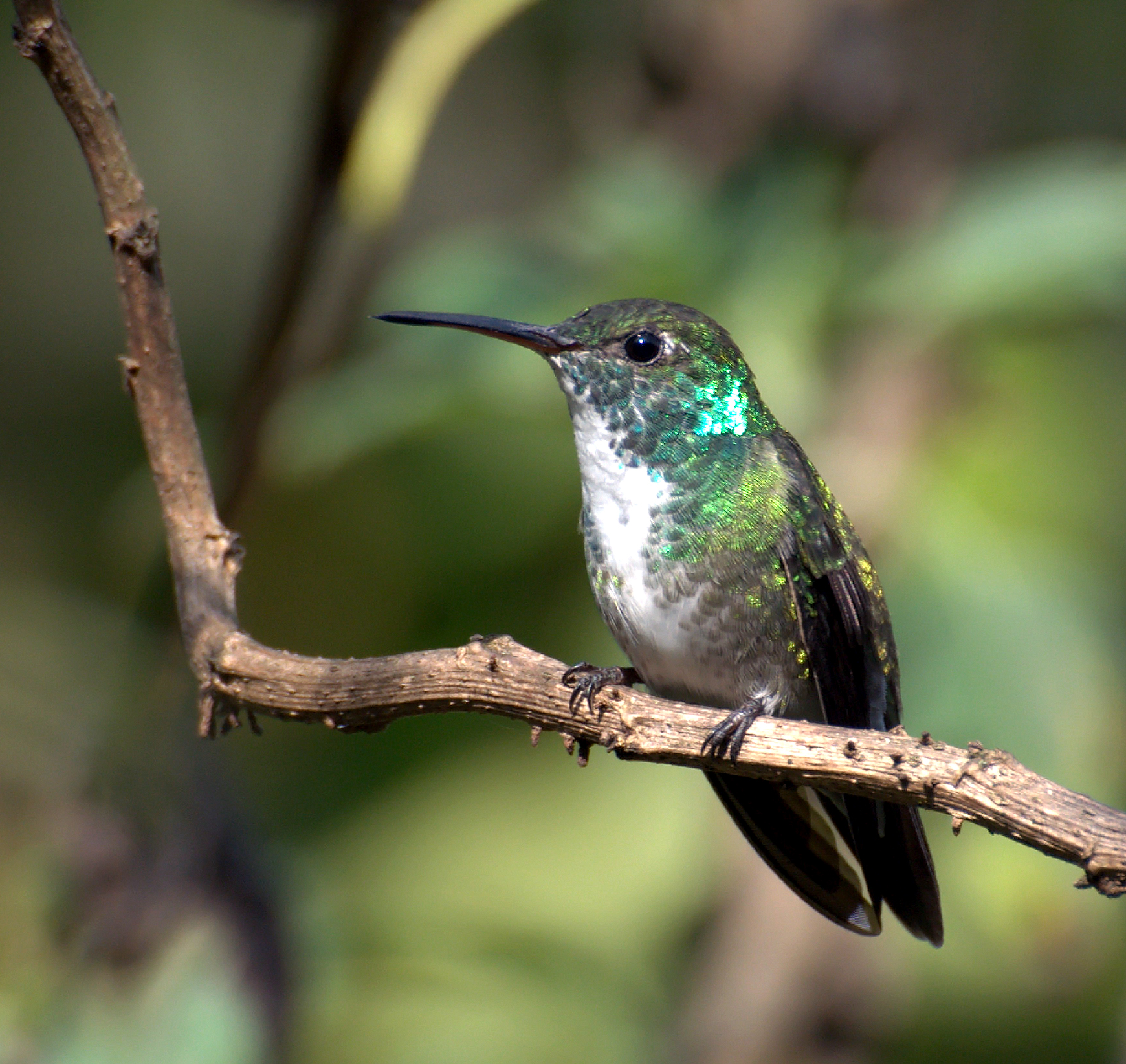 A Versicoloured Emerald at Antonio Wuo's farm, Mogi das Cruzes, São Paulo, Brazil.